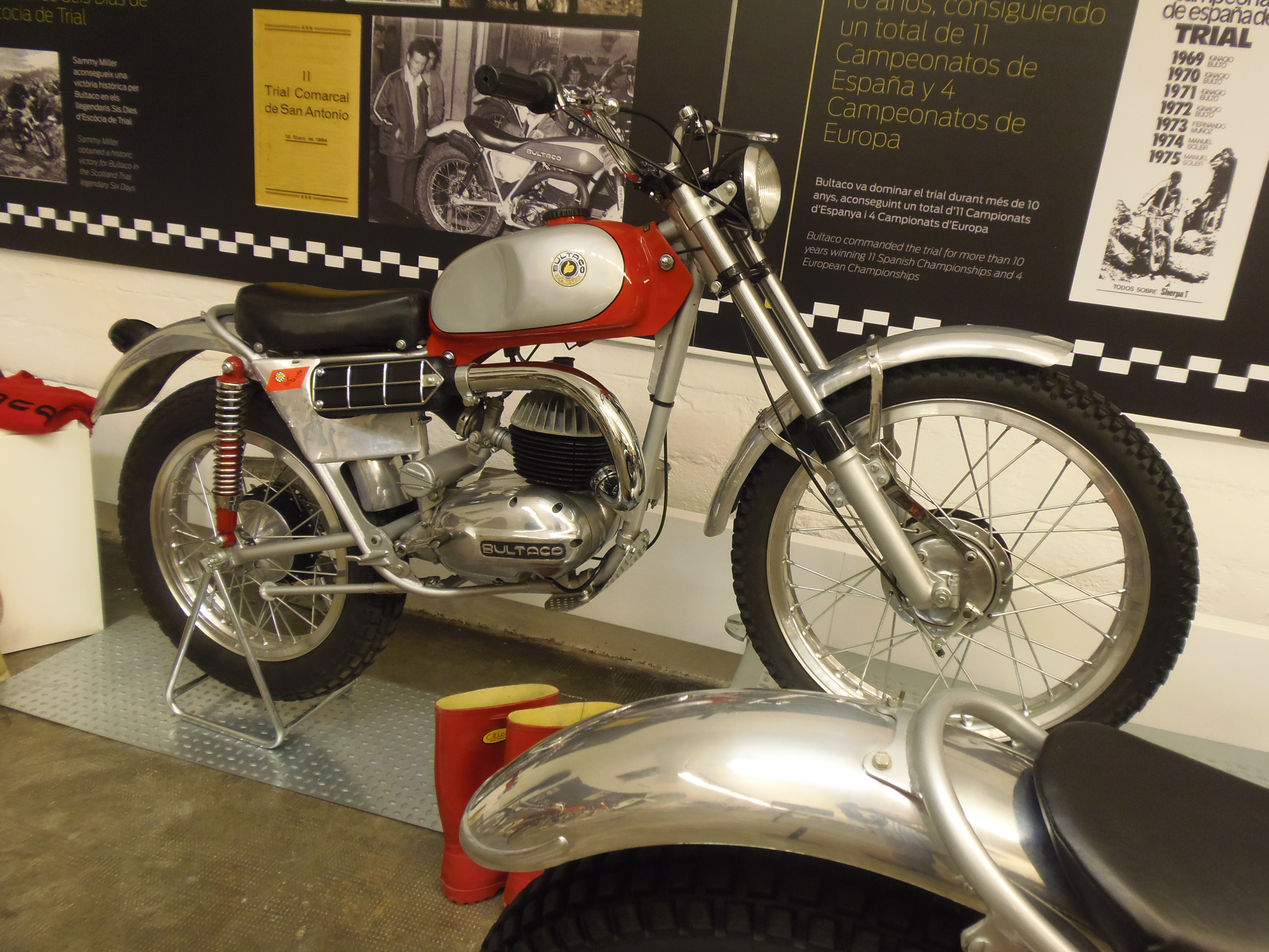 Bultaco Sherpa T Model 10, 250 cc, 1965. The first version of the Sherpa T, developed by mythical Northern Irish rider Sammy Miller in collaboration with Bultaco.